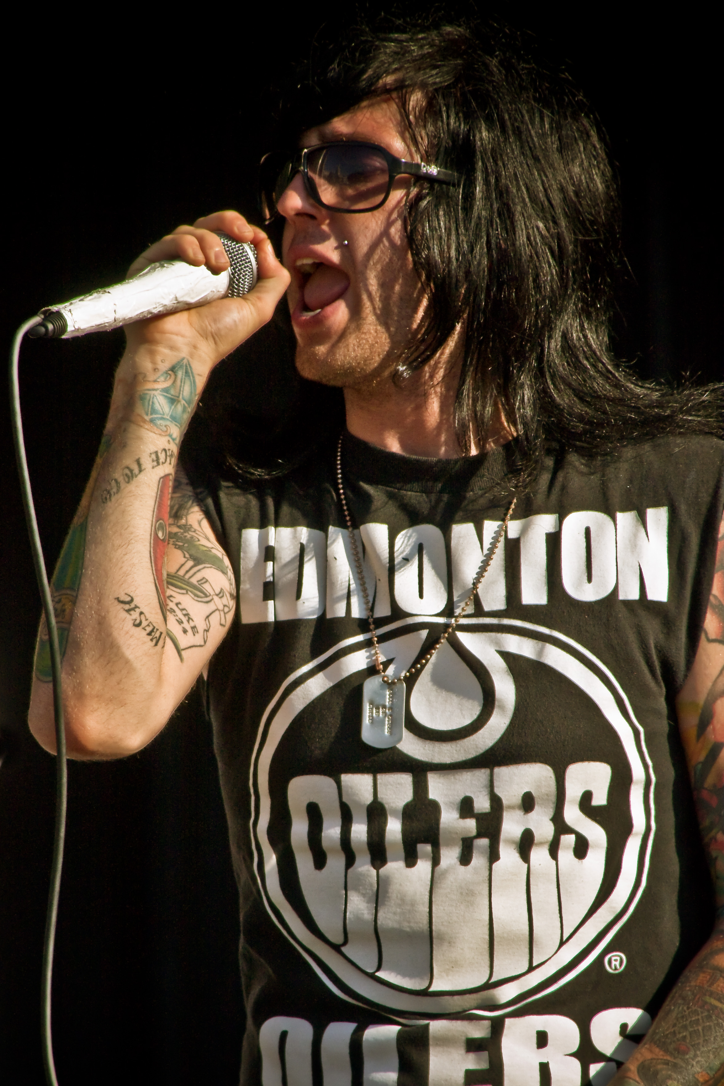 Singer Pat Kordyback of the band Stereos from Edmonton, Alberta at Canada Day celebrations in Trafalgar Square, London.